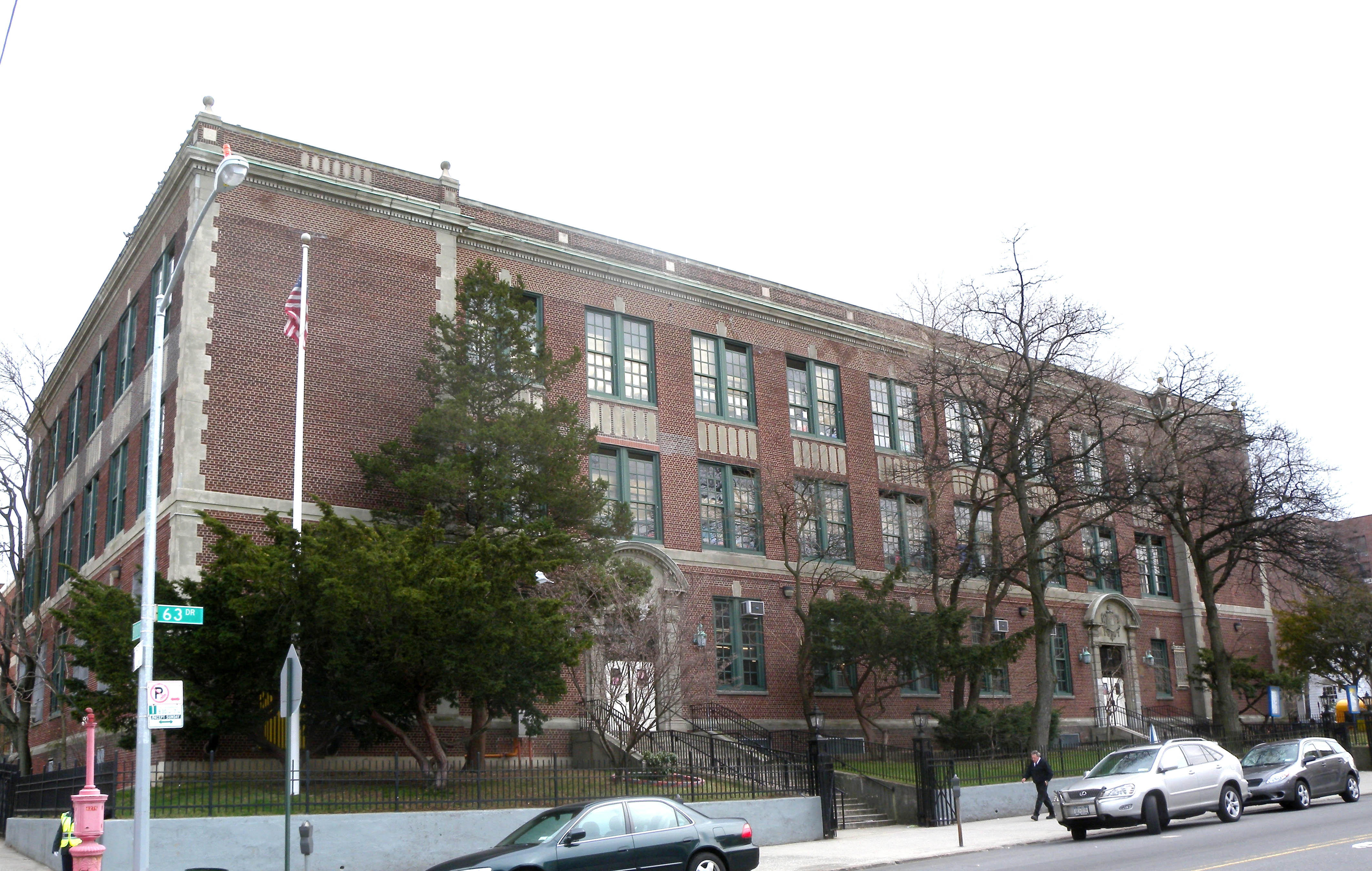 Looking southeast across 63d Drive, at PS 139 on a cloudy early afternoon.